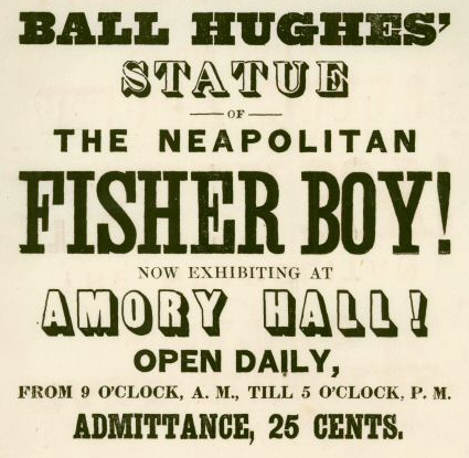 Advertisement for event at Amory Hall, Washington St., Boston.